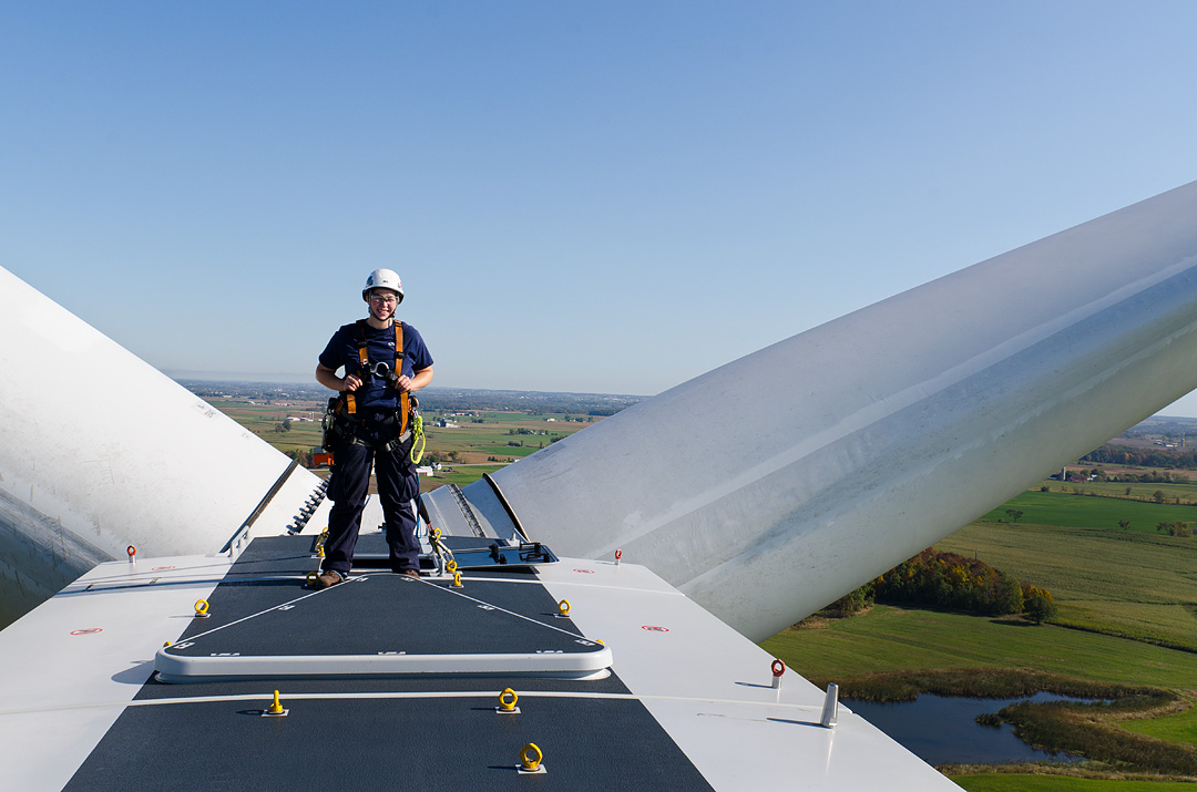 A person photographed standing on a wind turbine nacelle at Shirley Wind Farm - Green Bay, Wisconsin.